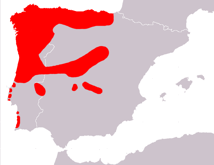 Lacerta schreiberi range map.